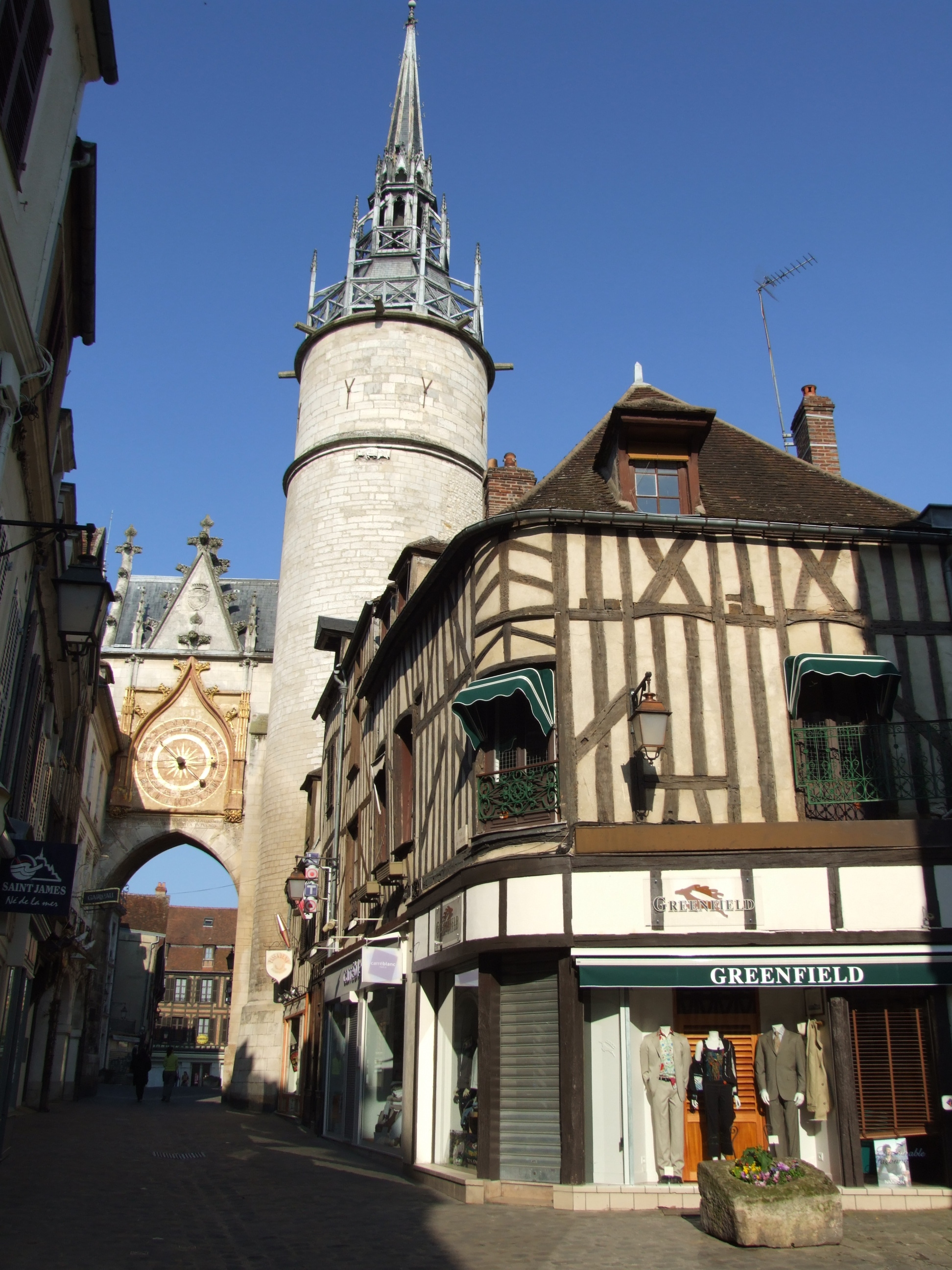 Clock tower of Auxerre, Auxerre, Burgundy, FRANCE